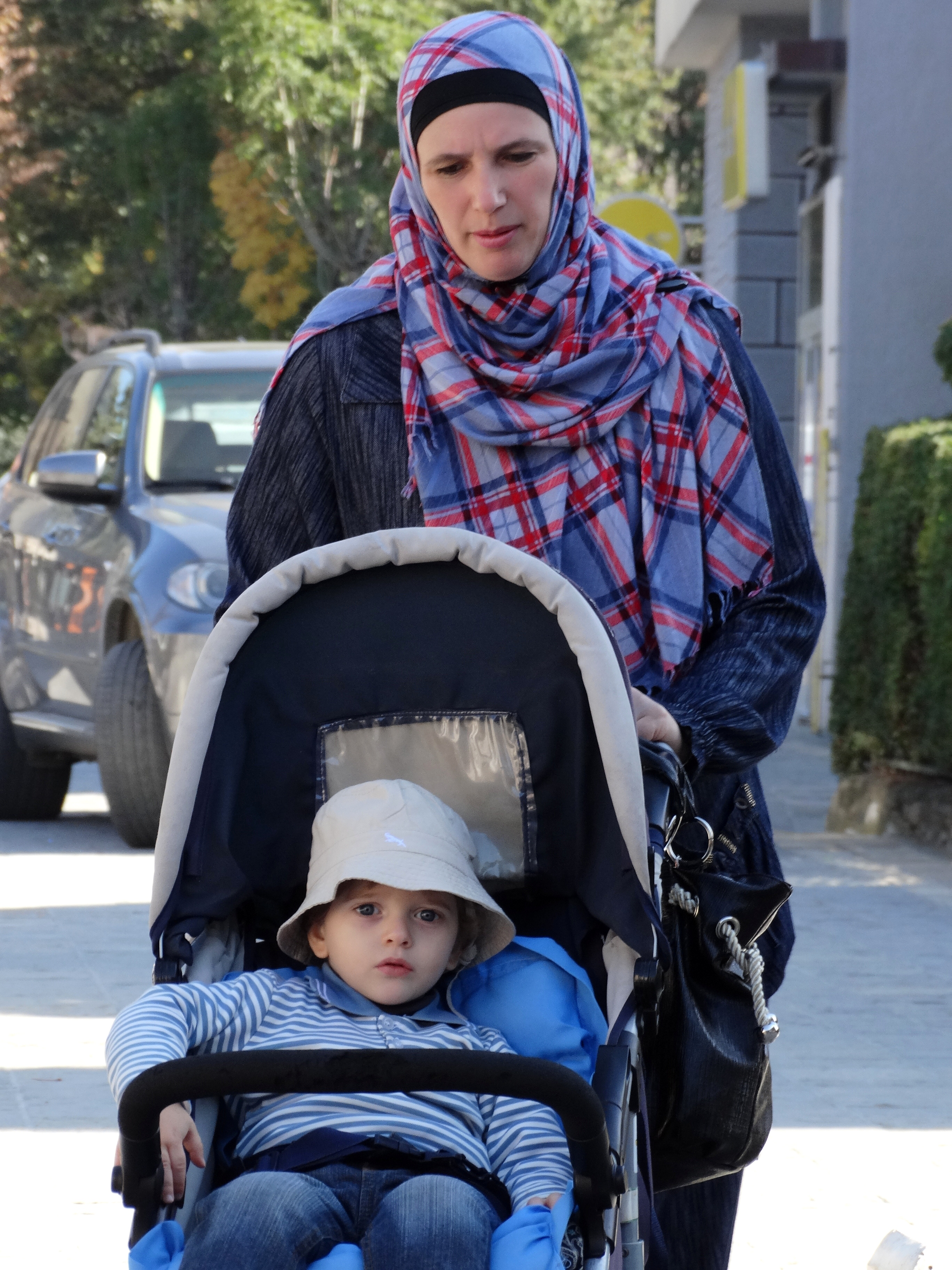 Mother and Child in Street - Prizren - Kosovo